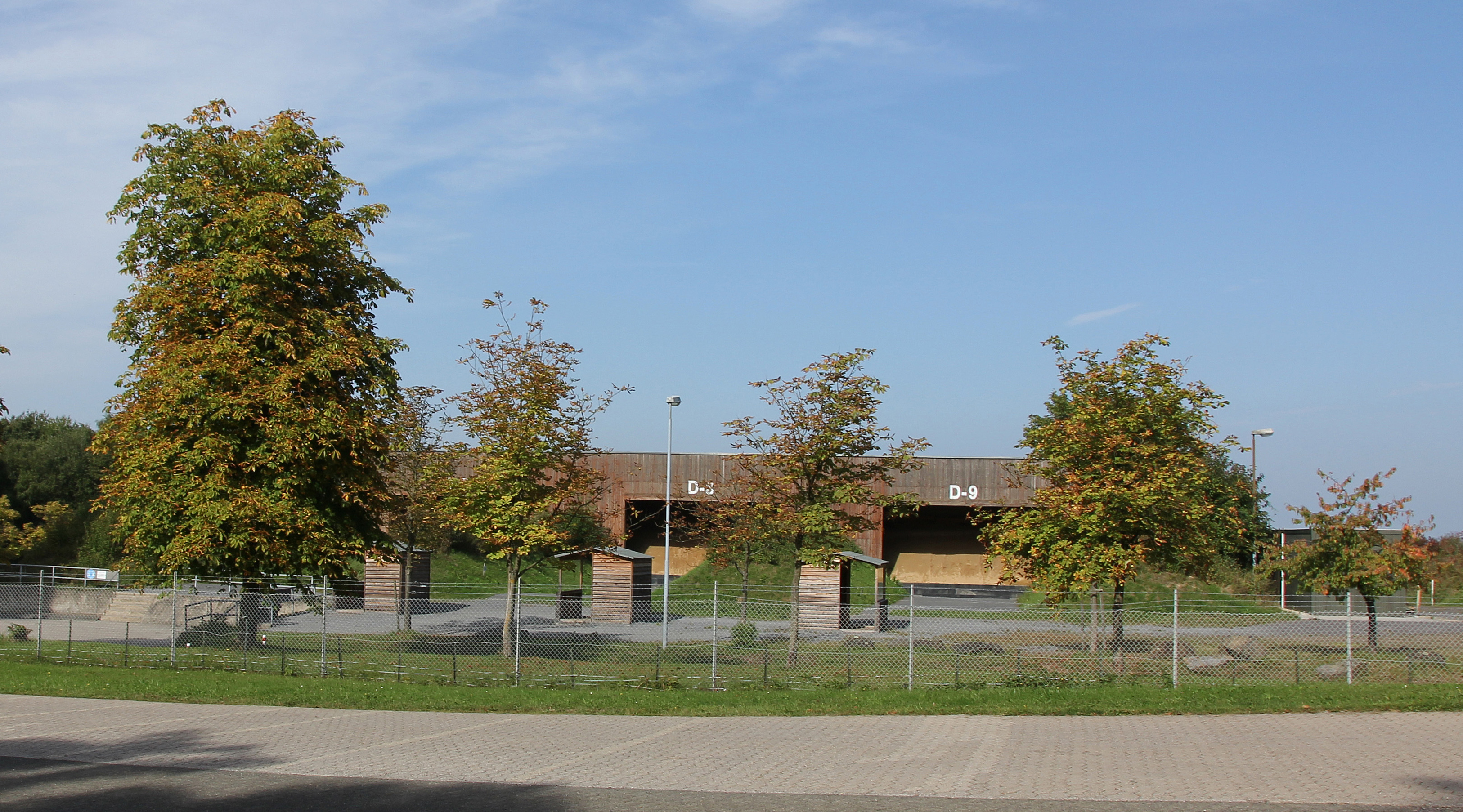 Standortübungsplatz Koblenz-Schmidtenhöhe in Koblenz